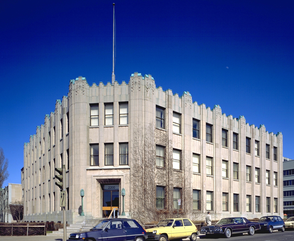 Dominion Oilcloth and Linoleum Building, Montreal